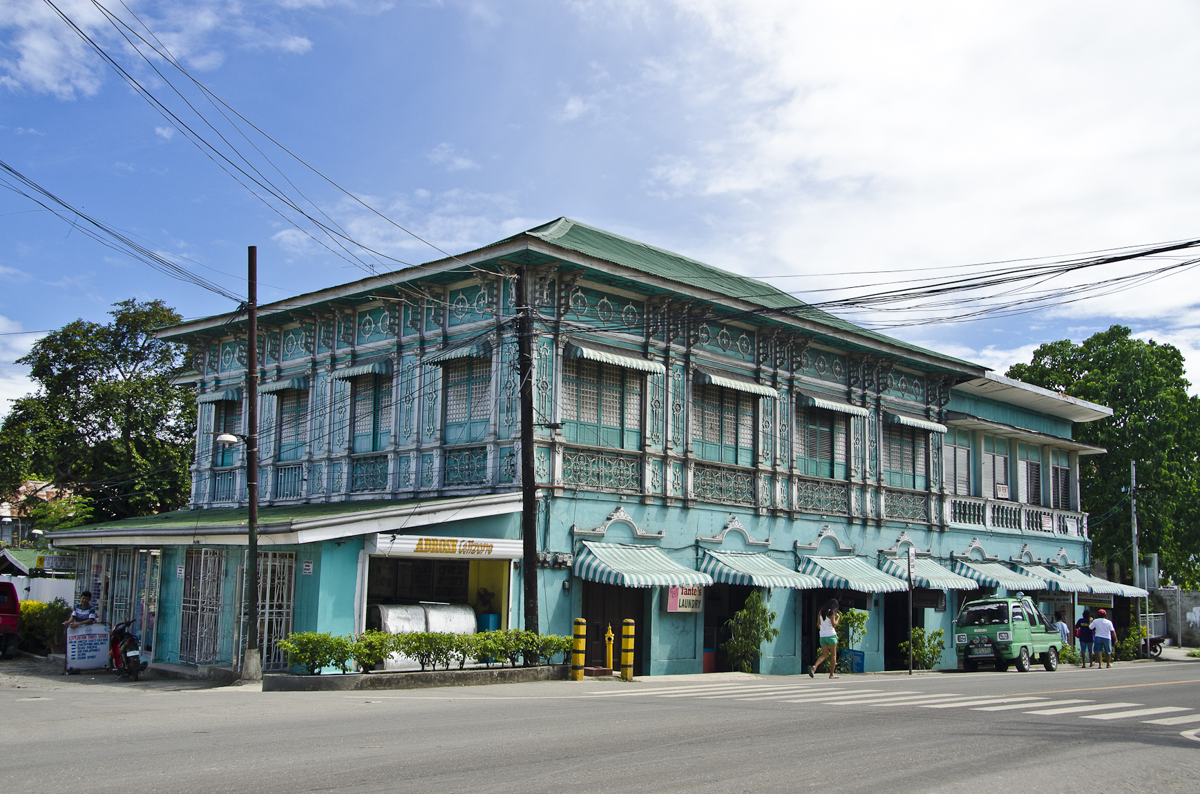 The Mercado Ancestral Home is one of the oldest in Cebu found in Carcar